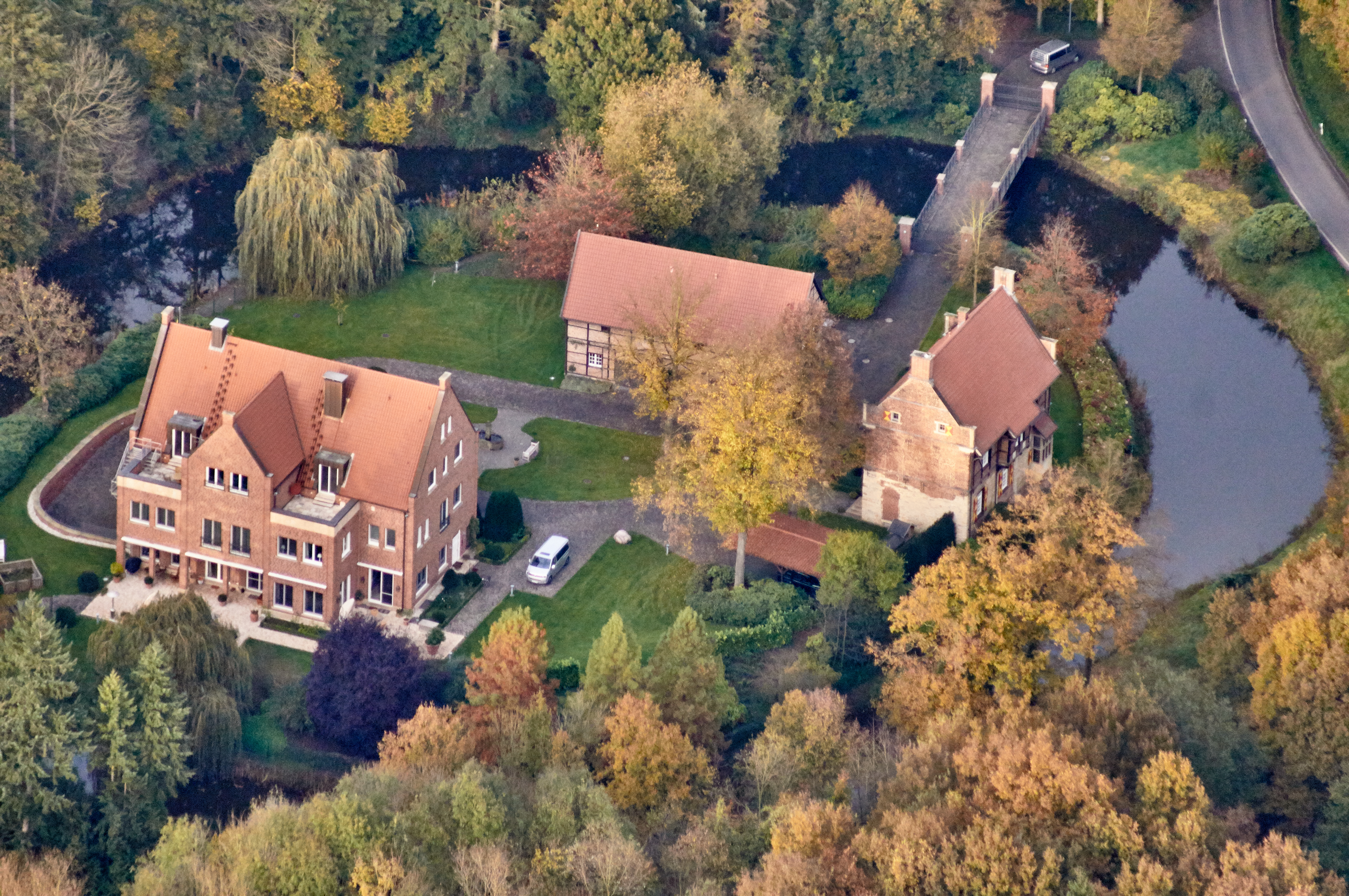 Bisping house, Drensteinfurt-Rinkerode, North Rhine-Westphalia, Germany